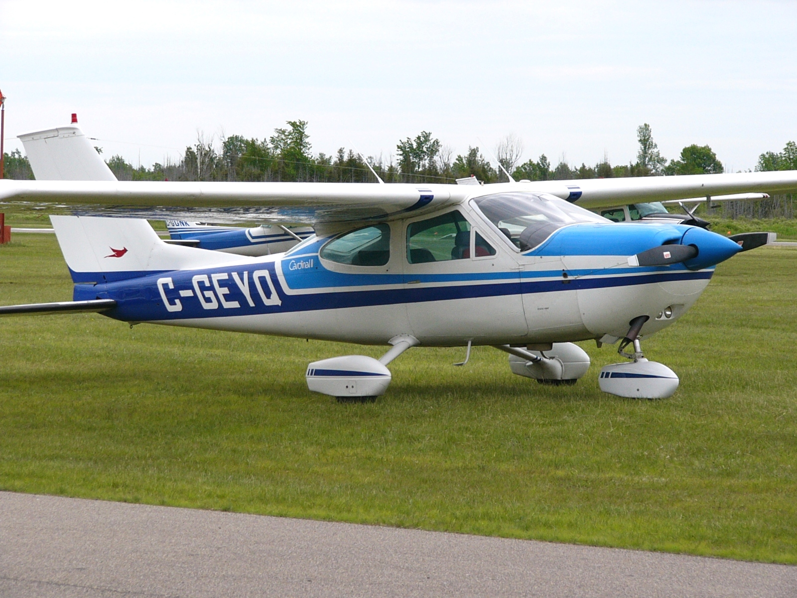 Cessna 177B Cardinal (C-GEYQ) en Smiths Falls, Ontario, Canadá